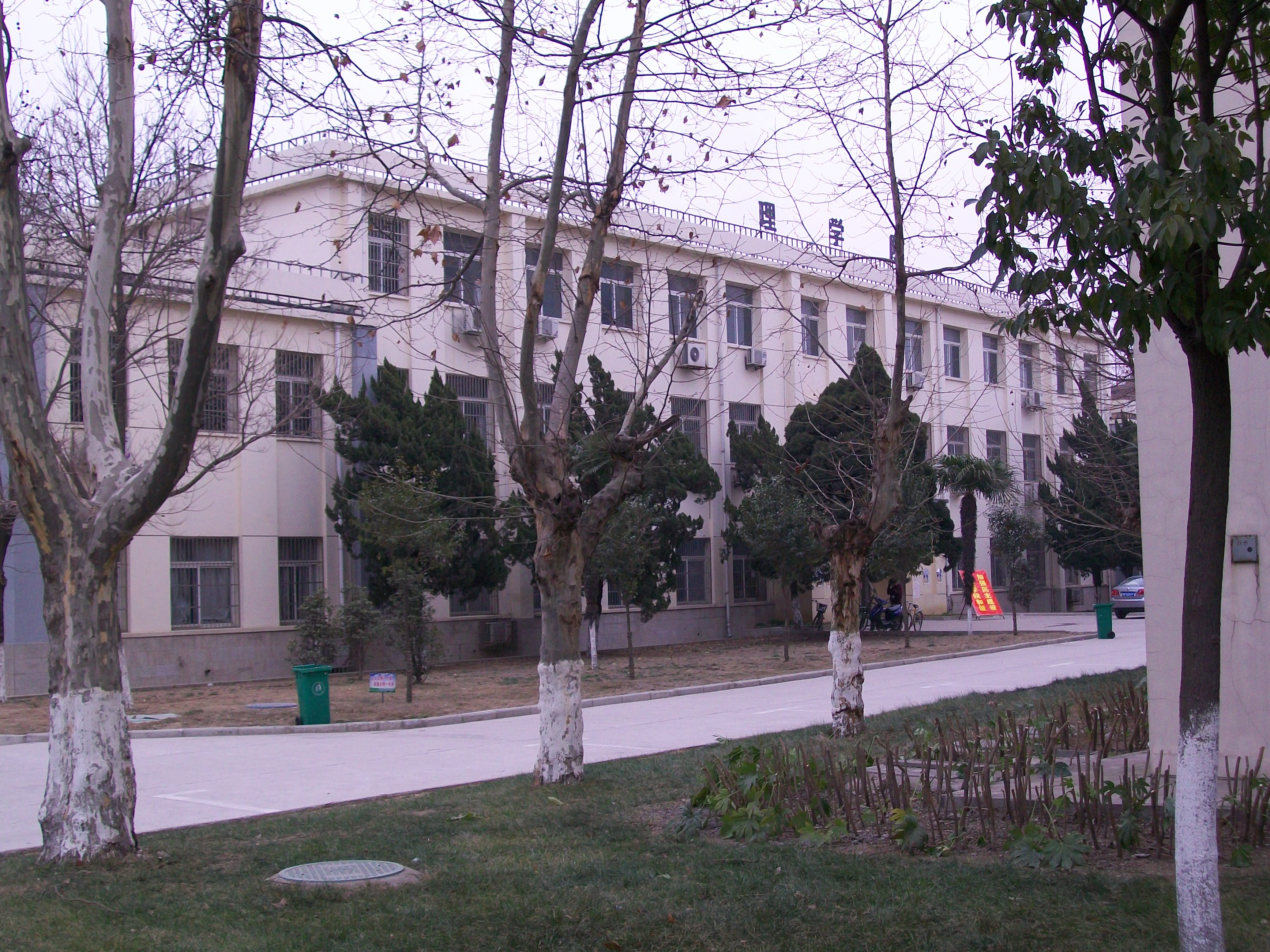 College of Science,in Anhui University of Science and Technology.